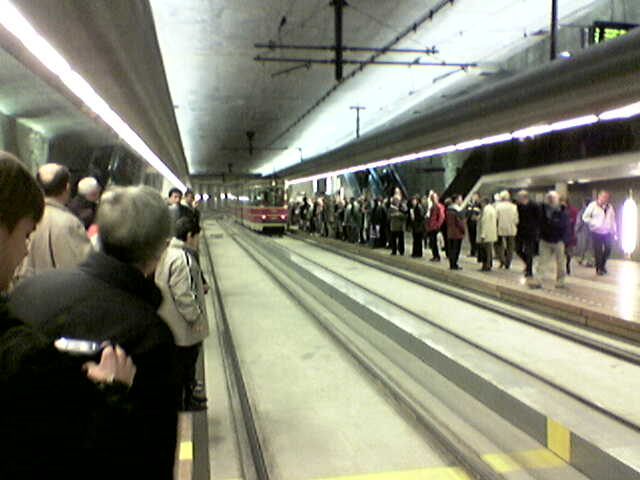 Underground station in The Hague "tram tunnel", on the day it opened.